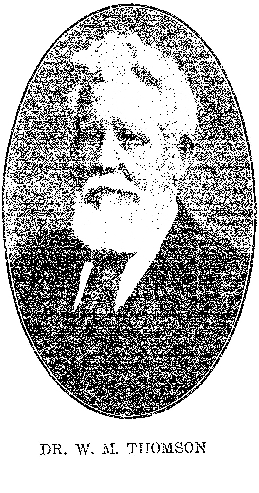 Dr W.M. Thomson